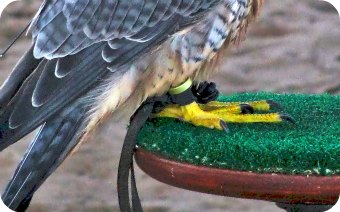 I, Charlie Hart, am the full licence owner and I give permission for this photo to be used on the terms that a link attribution is made to